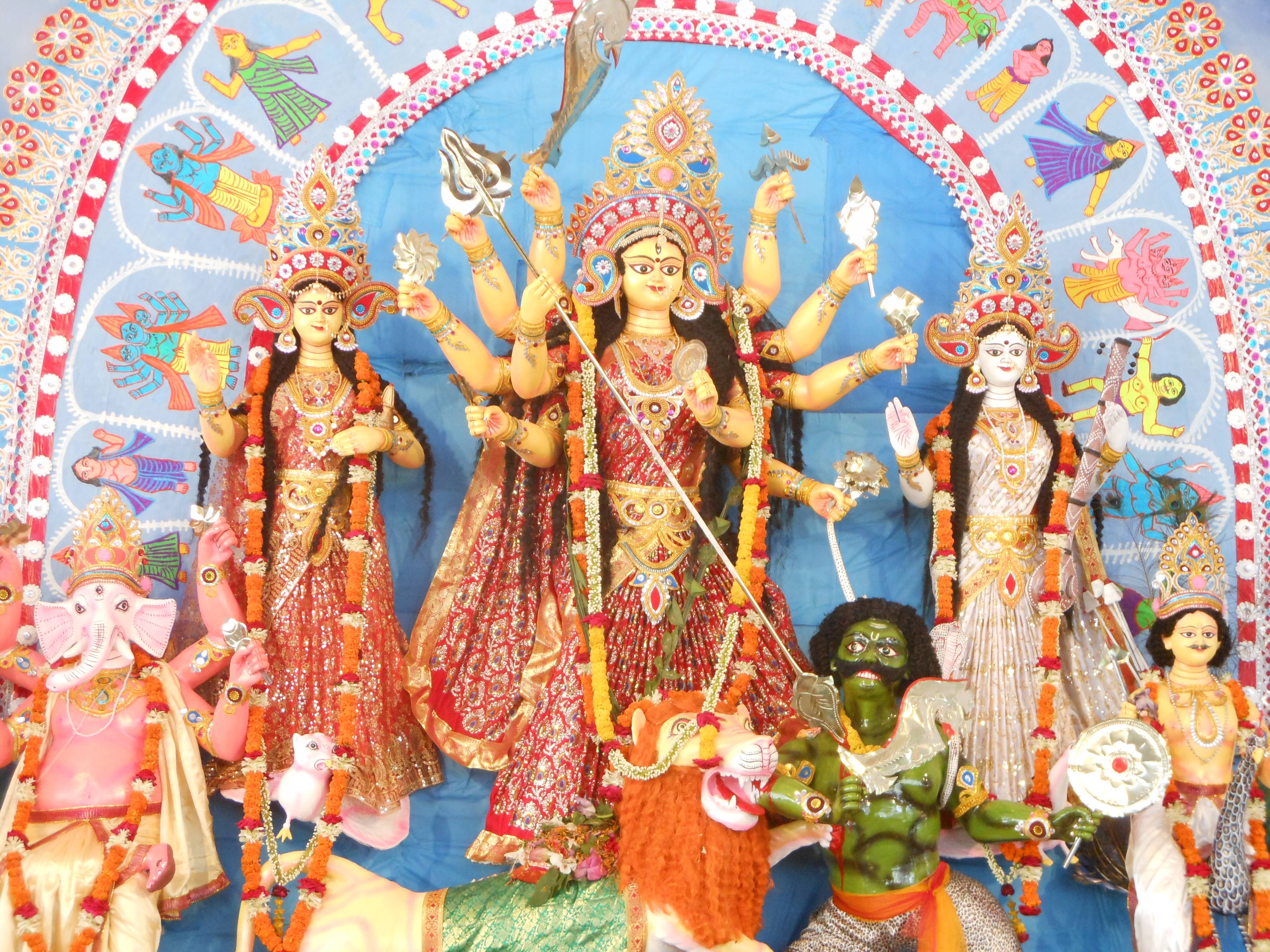 This is an image of Durga in Durga Puja